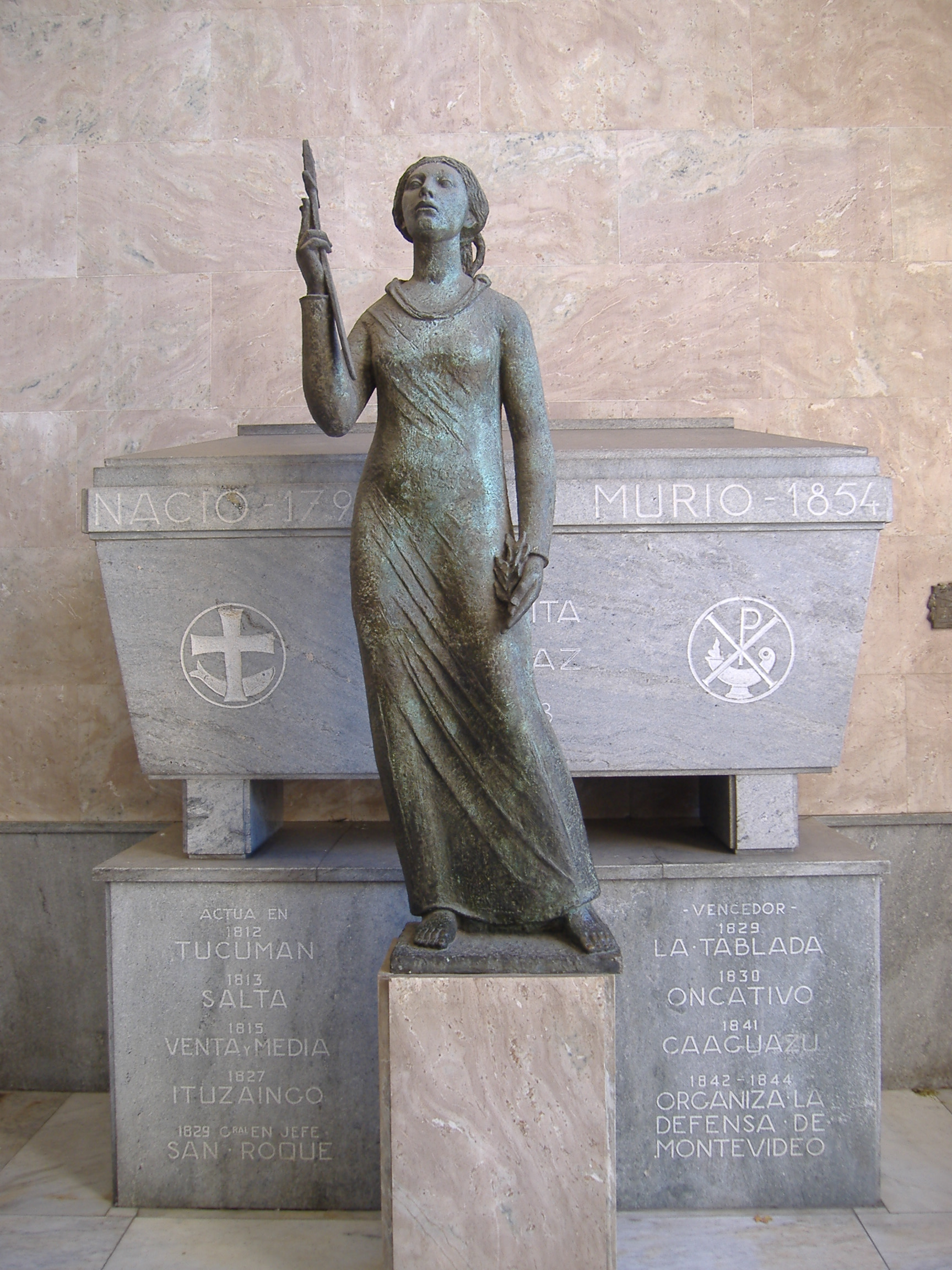 The tomb of Margarita Weild, wife of Brigadier General José María Paz, next to his husband's, in the Cathedral of Córdoba, Argentina.